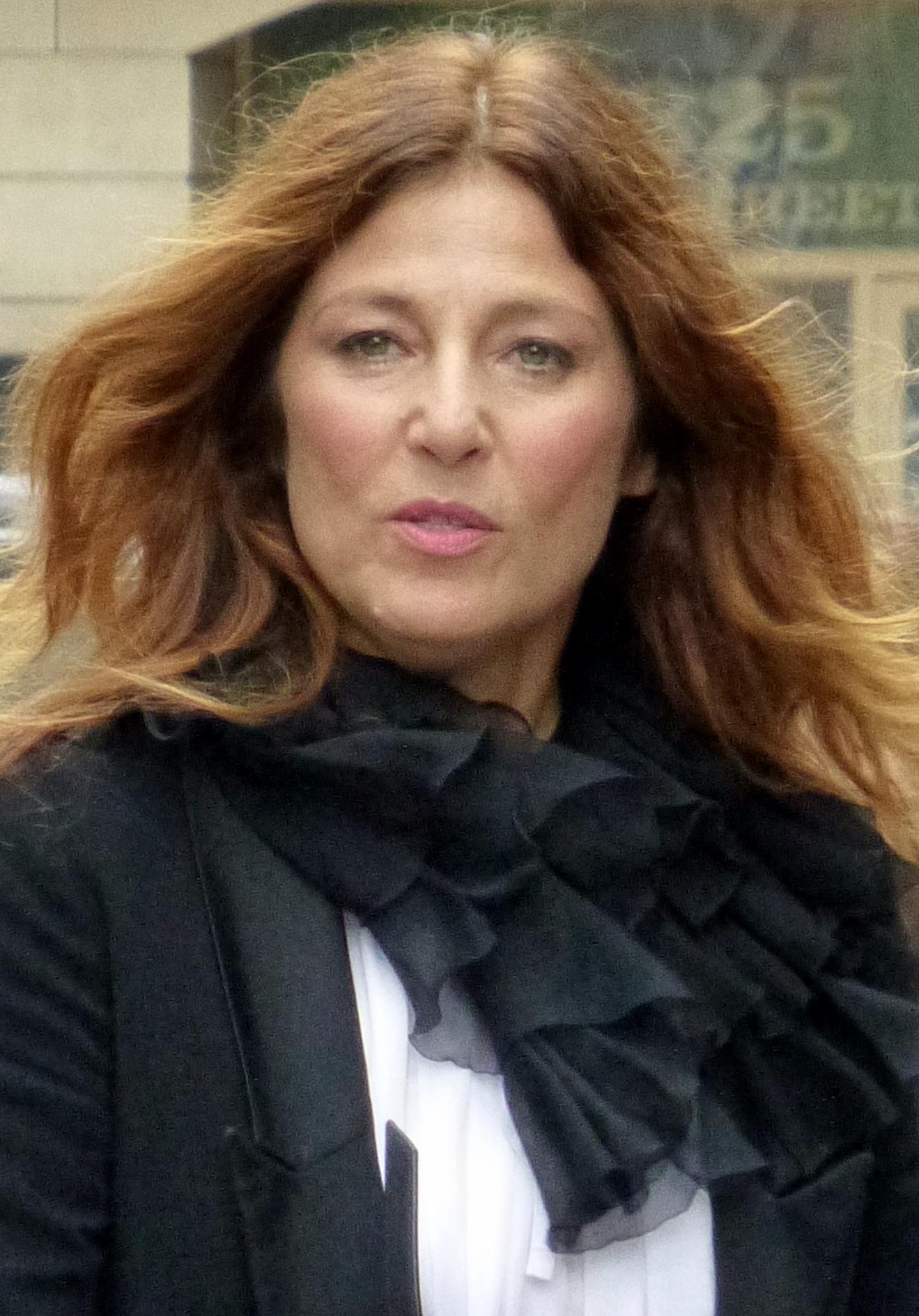 Catherine Keener at Elephant Song press conference, 2014 Toronto Film Festival